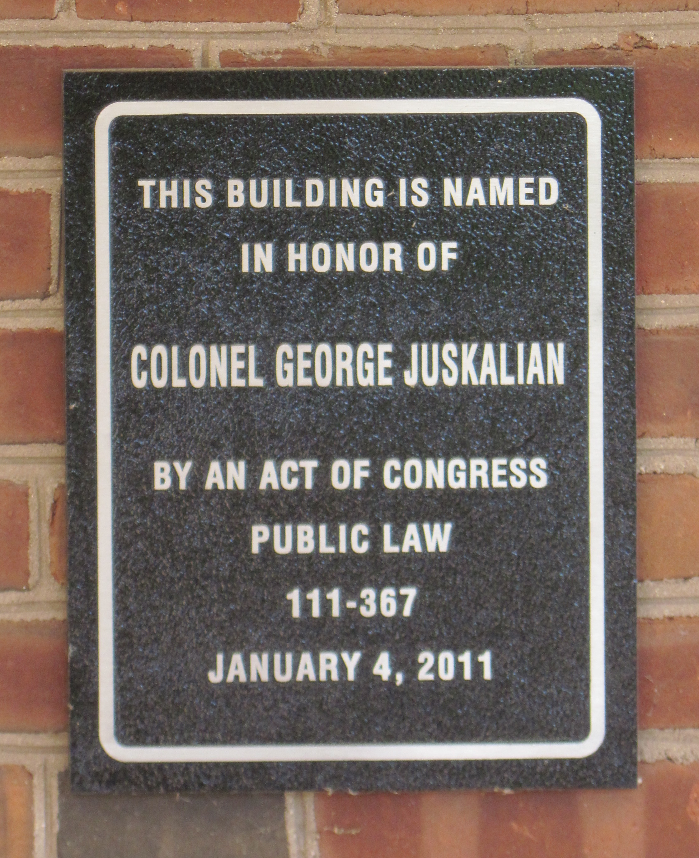 Juskalian PO plaque, cropped